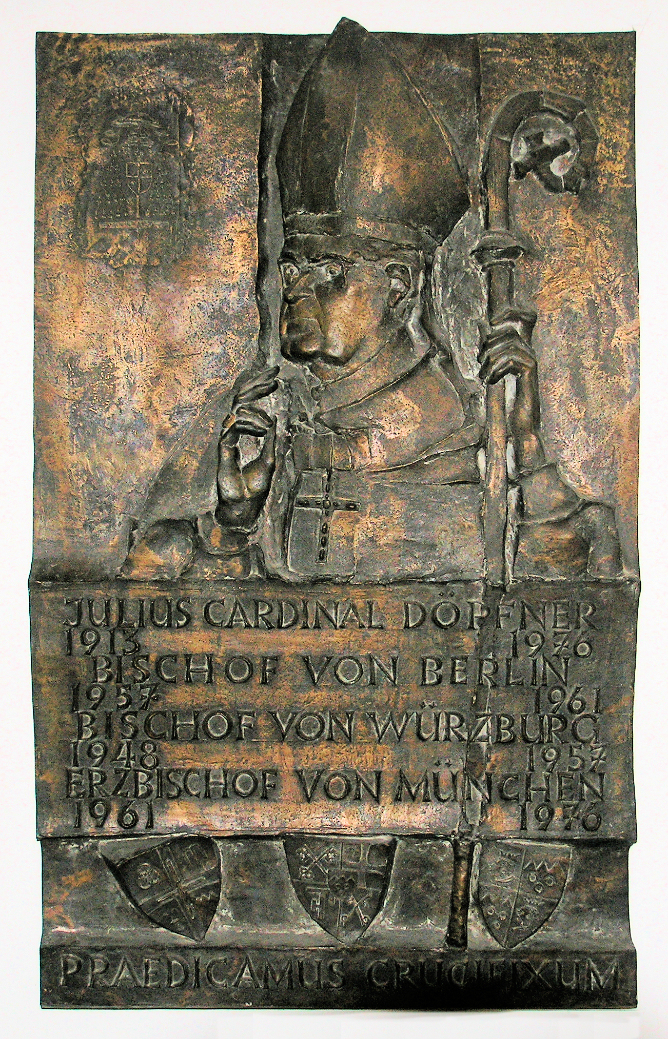 Memorial plaque, Julius Döpfner, Hinter der Katholischen Kirche 3, Berlin-Mitte, Germany